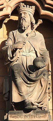 Representation of Egbert of Wessex from the west facade of Lichfield Cathedral, England.